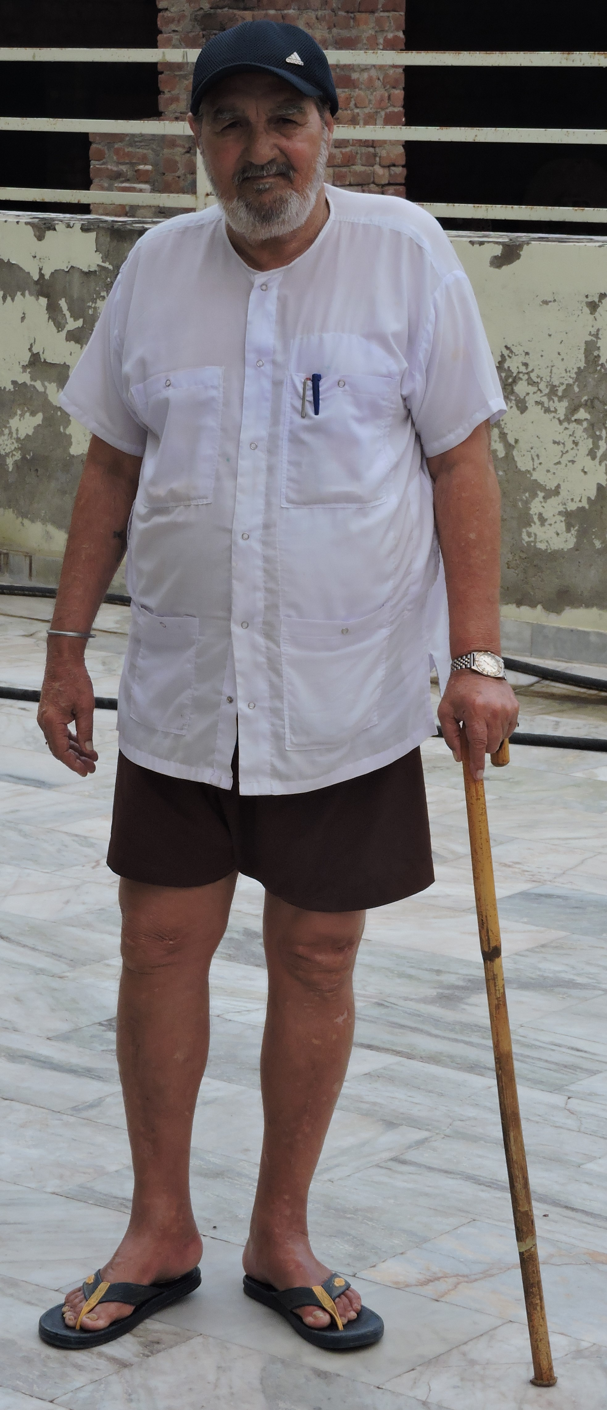 Rabbi Singh Baironpuri , folk singer of Puadh cultural region of Punjab ,India